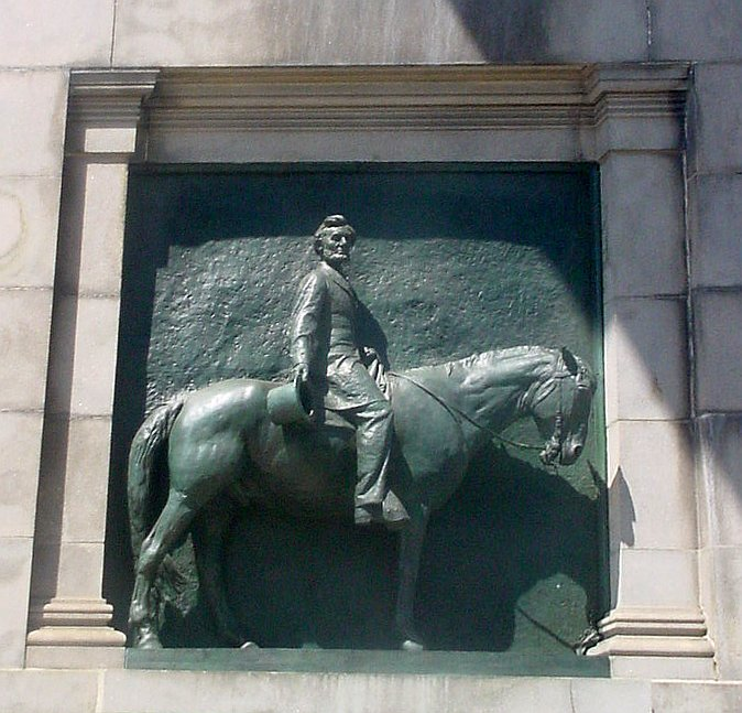 Alto-relievo bronze casting of Abraham Lincoln. Casting from a sculpture by William R. O'Donovon (Lincoln figure) and Thomas Eakins